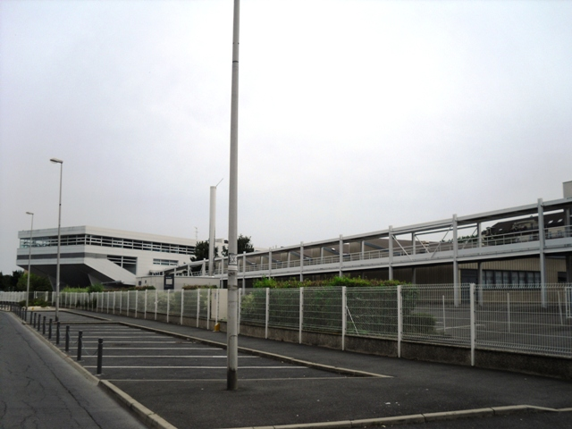 Jean Perrin Secondary School in Longjumeau, Essonne sisi ma gueule, France